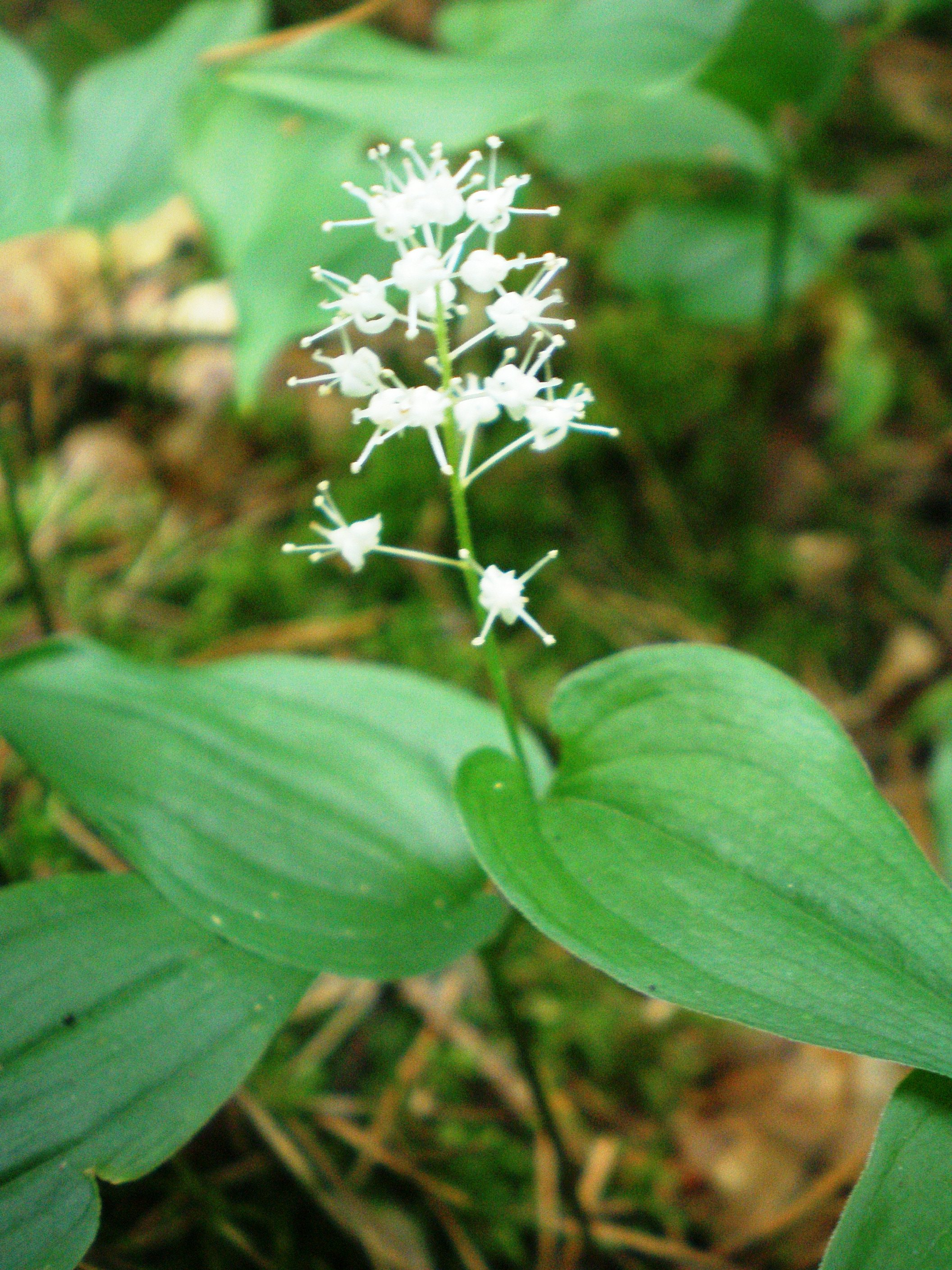 Maianthemum bifolium